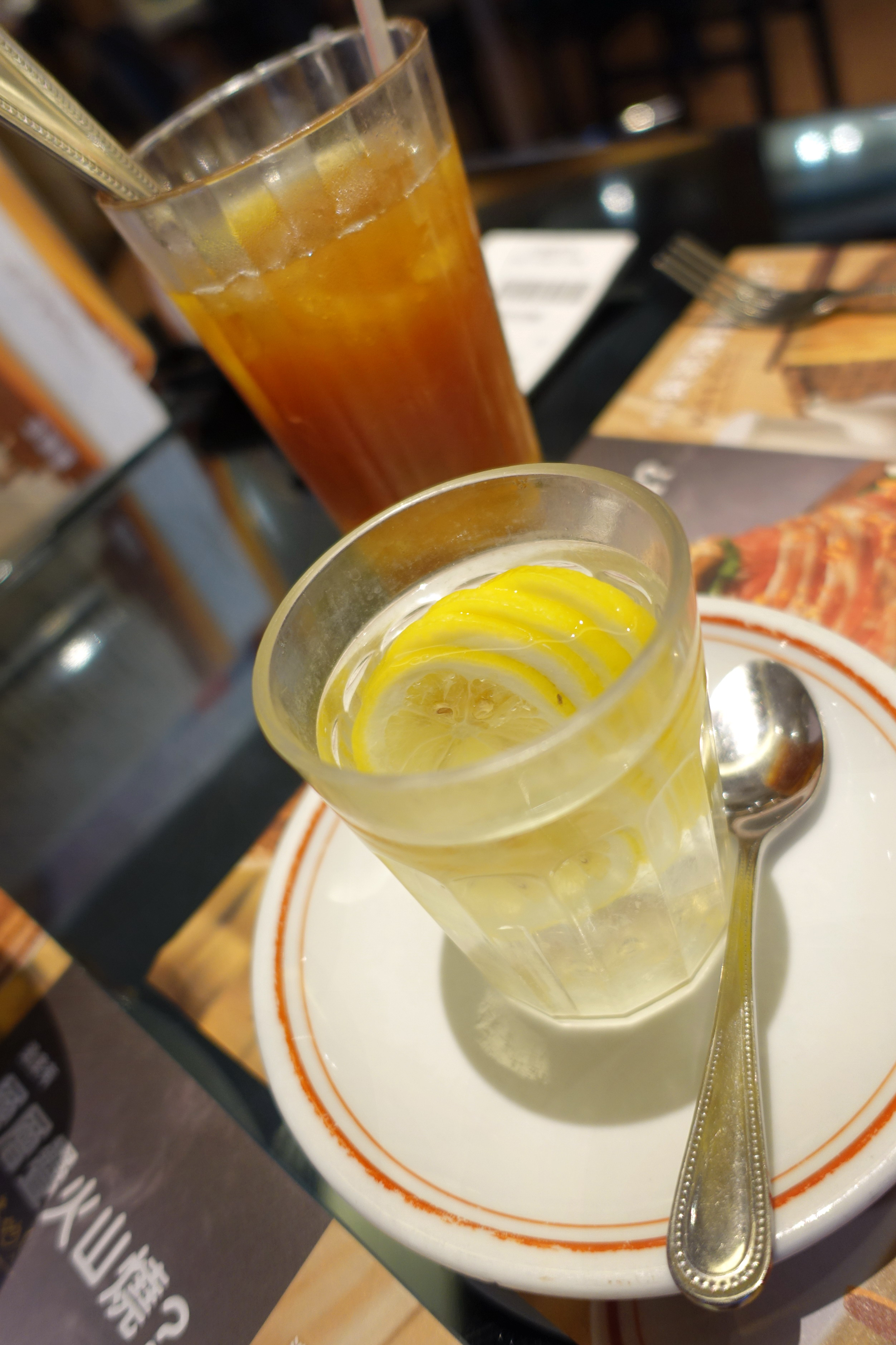 Hot lemon water and iced lemon tea, Hong Kong style beverage.